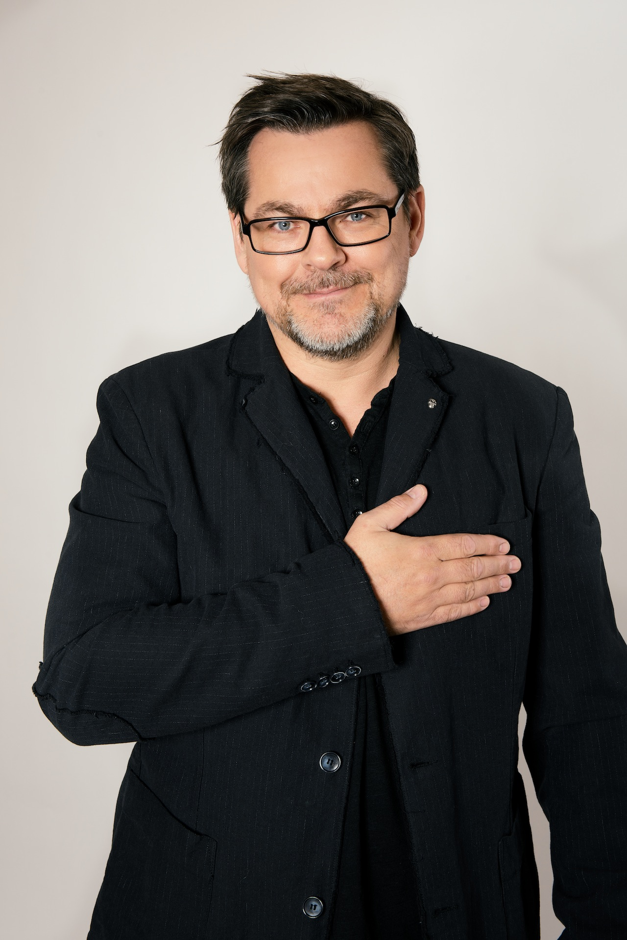 Swedish television presenter Joakim Geigert in a promotional photo for the The Swedish Heart-Lung Foundation.